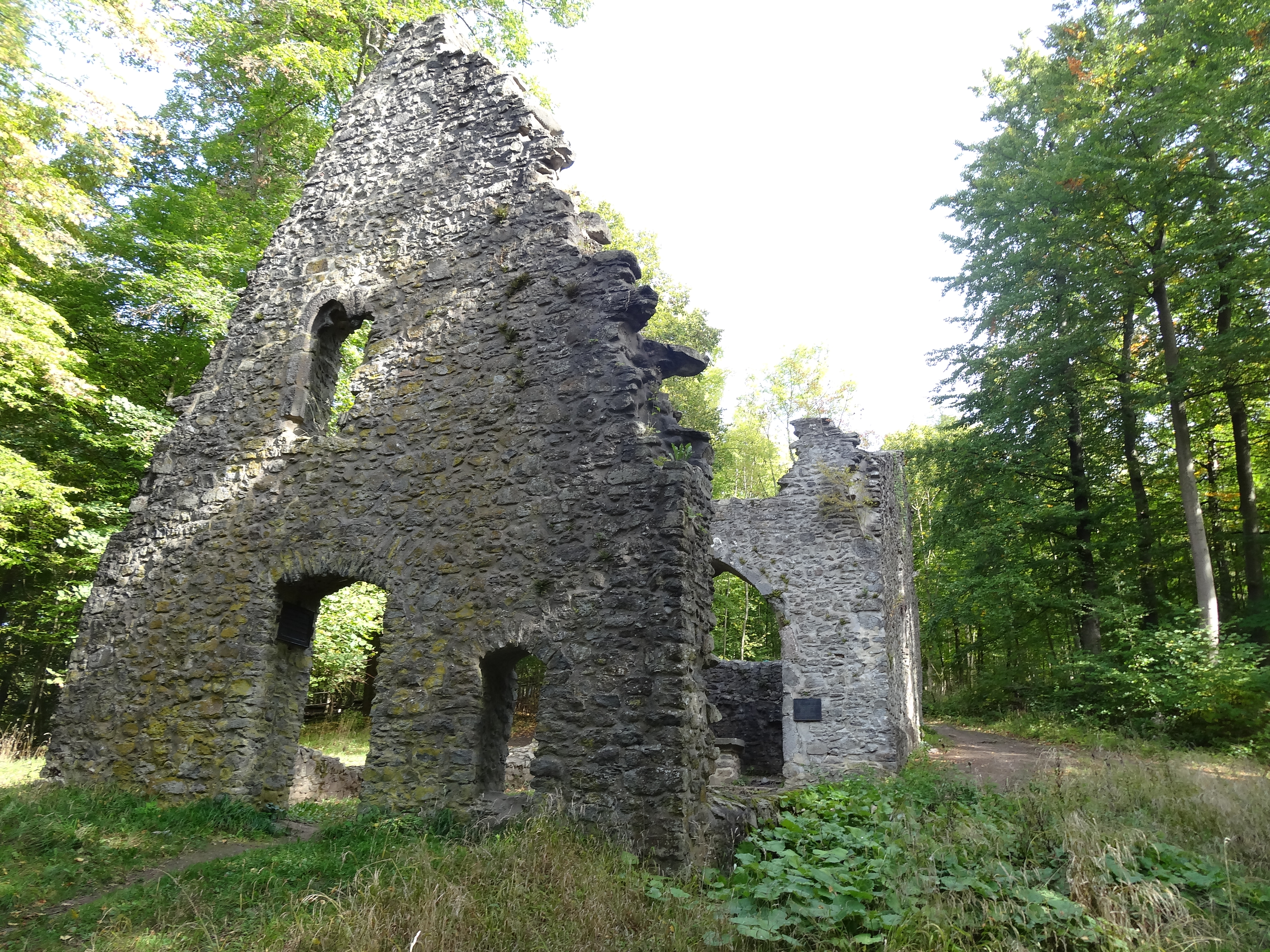 St. Veltin, Rudhardshausen (Germany) Oct, 3rd 2013